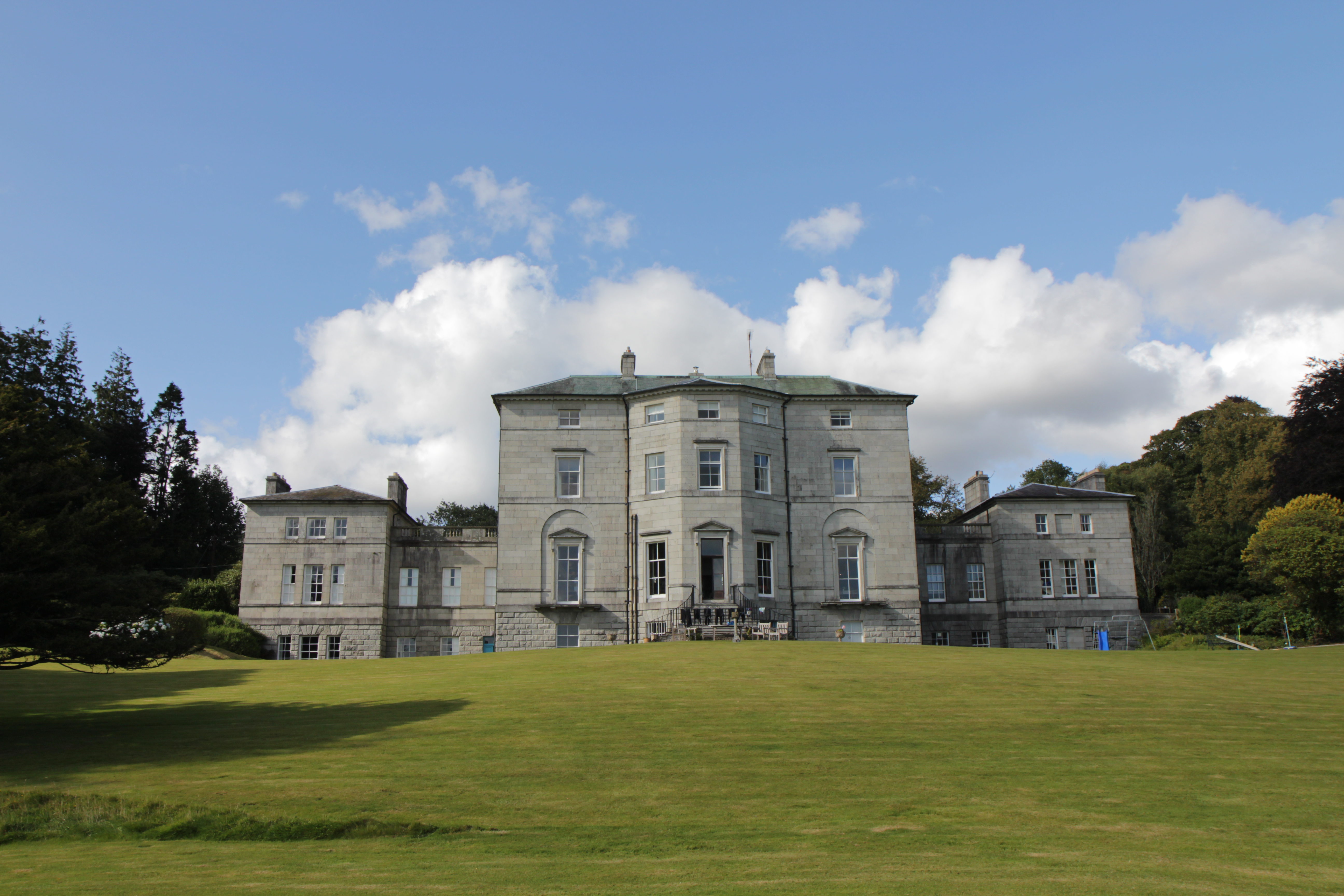 Kirkdale House and Sundial